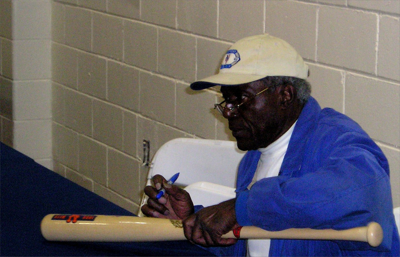 Mets star Ed Charles at a baseball memorabilia event at Hofstra University in 2007